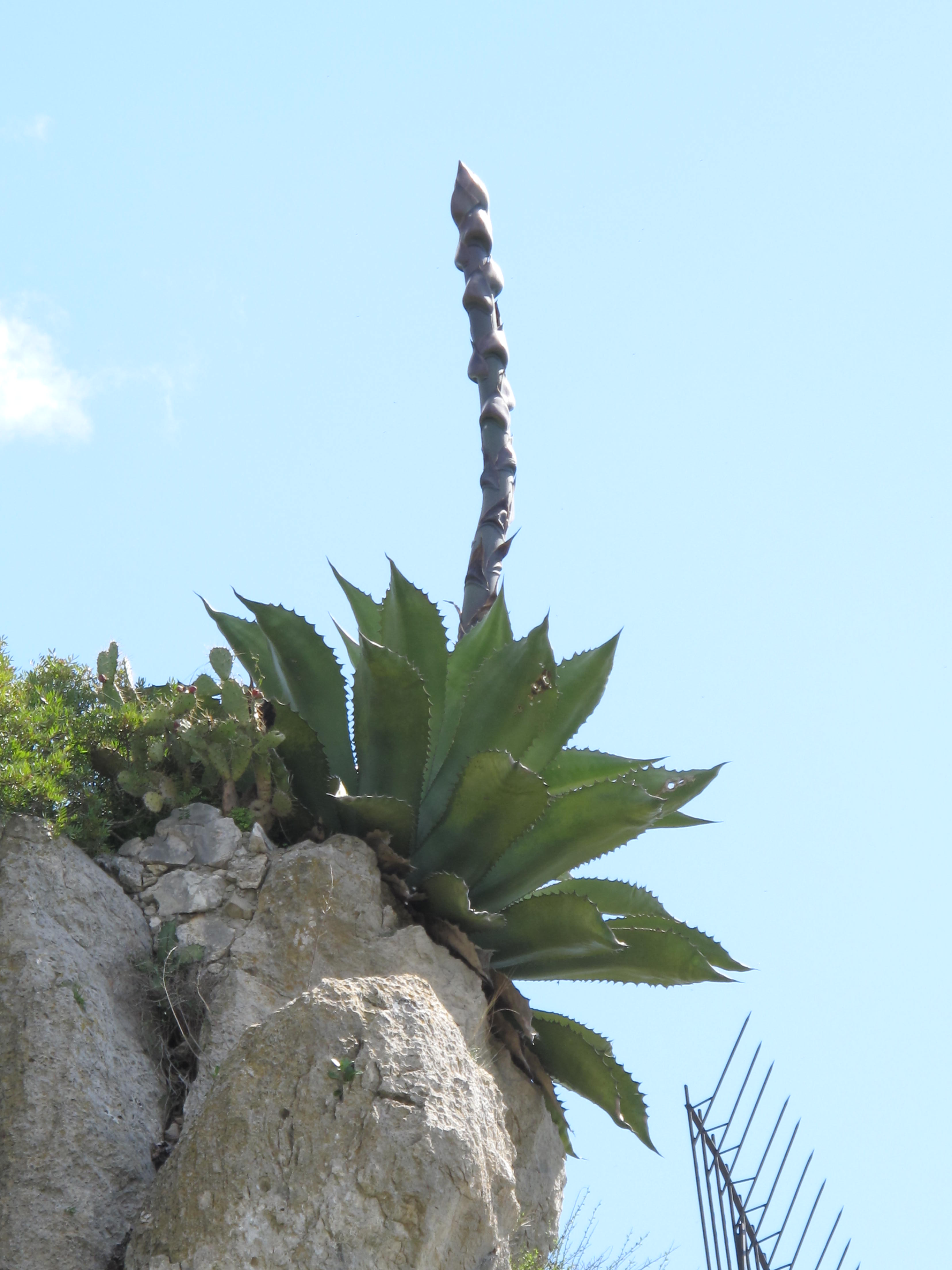 Agave salmiana in the botanical garden of Eze (France)